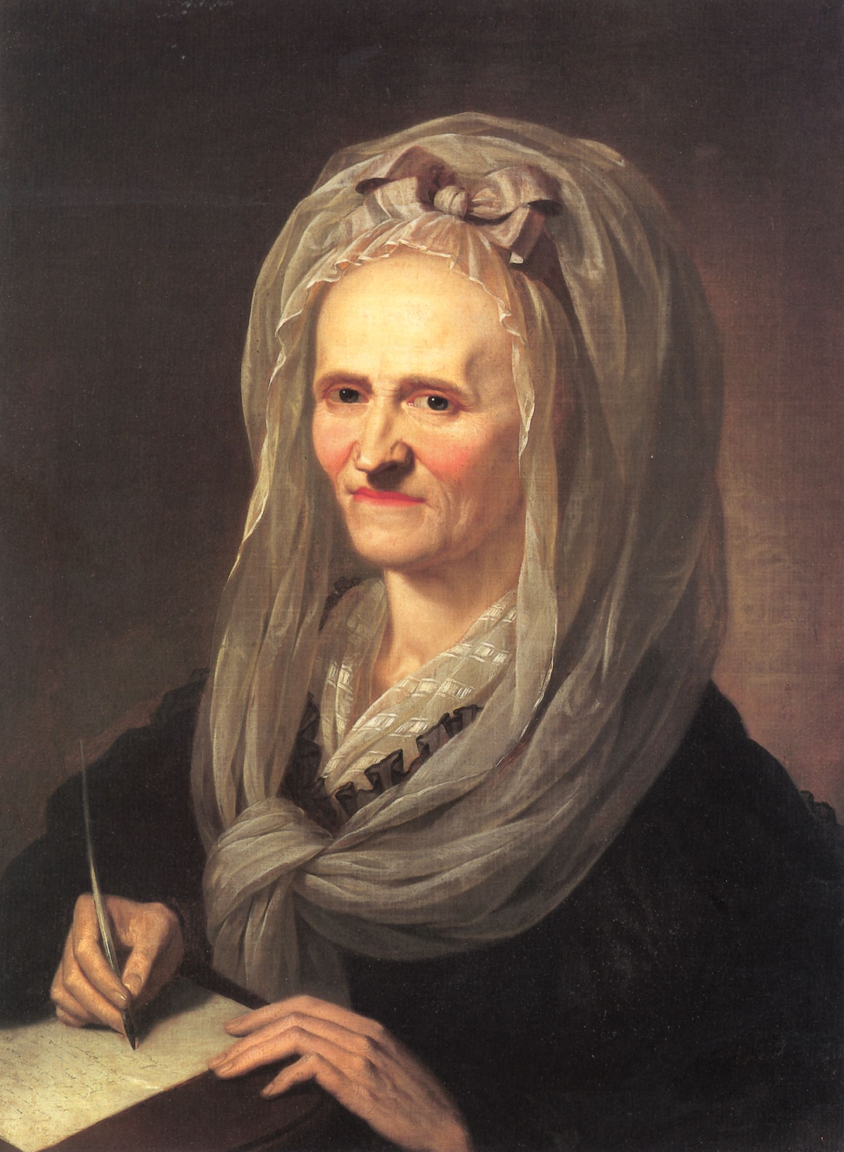 Portrait of Anna Louisa Karsch (1722-1791)